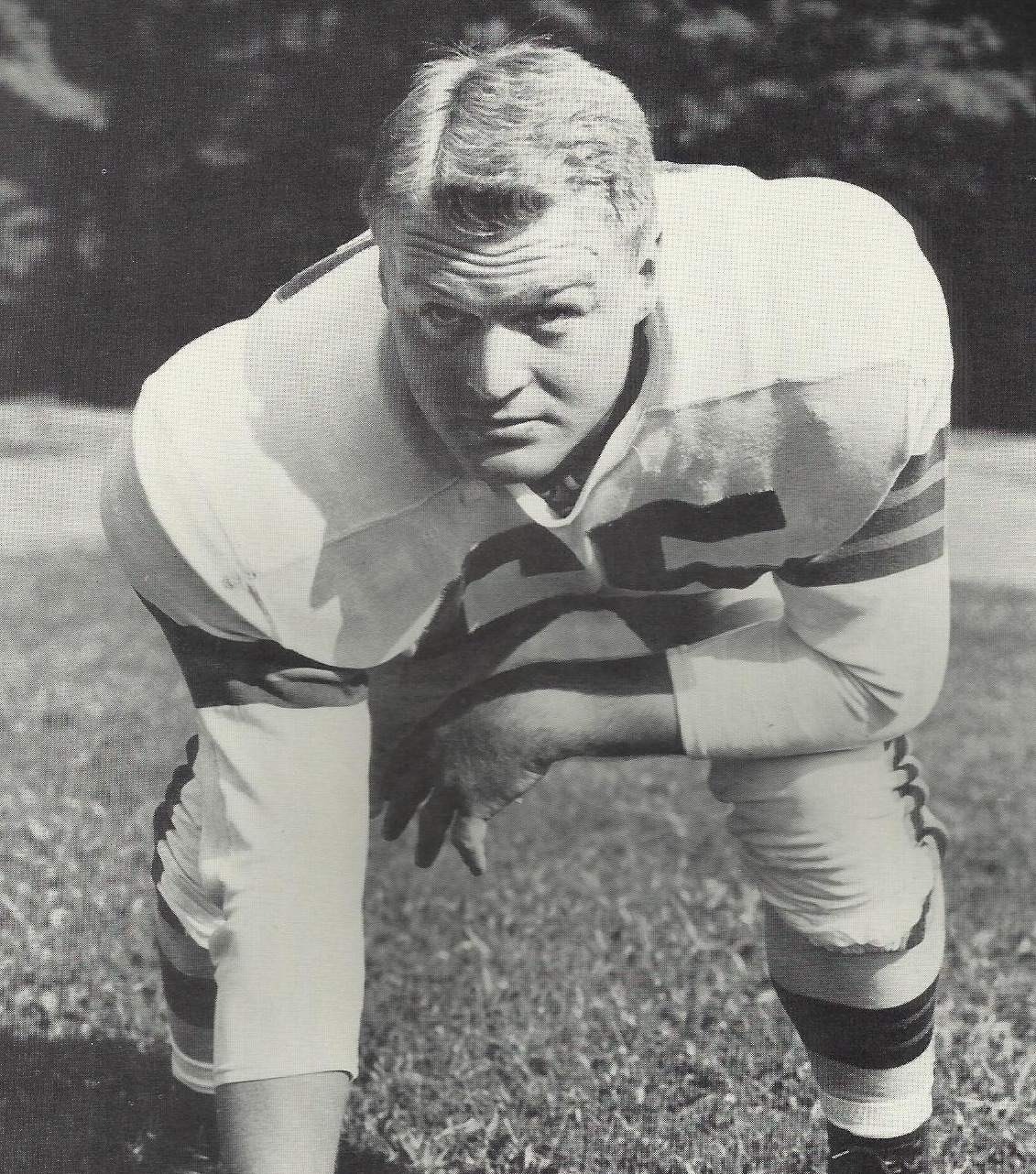 1954 Browns Team issued print of Chuck Noll